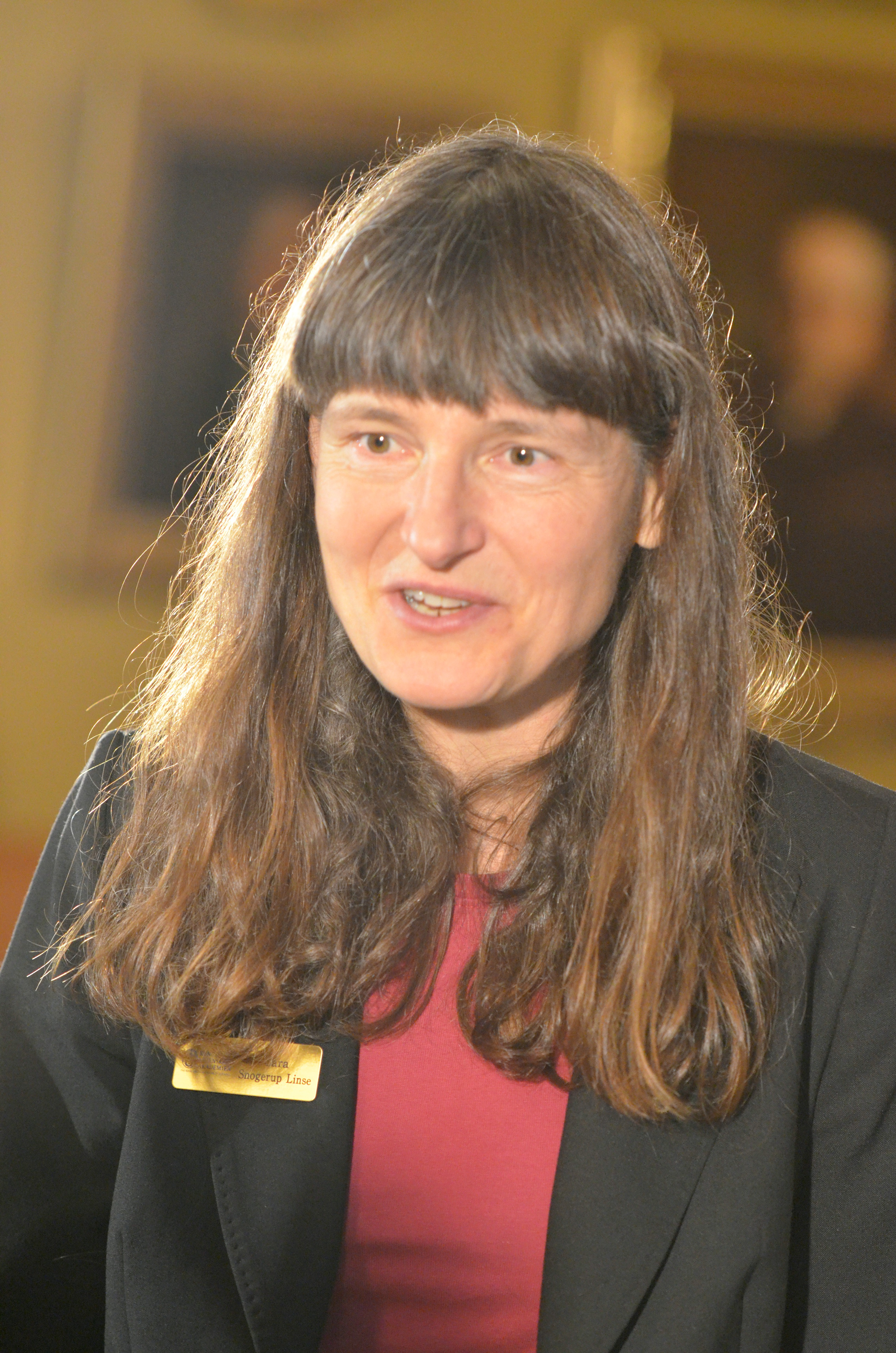 Swedish professor Sara Snogerup Linse